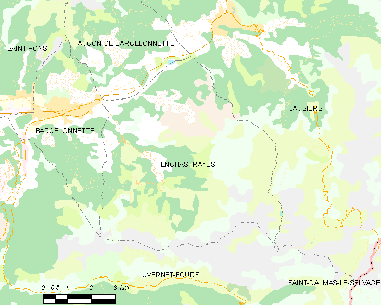 Map commune FR insee code 04073.png Légende